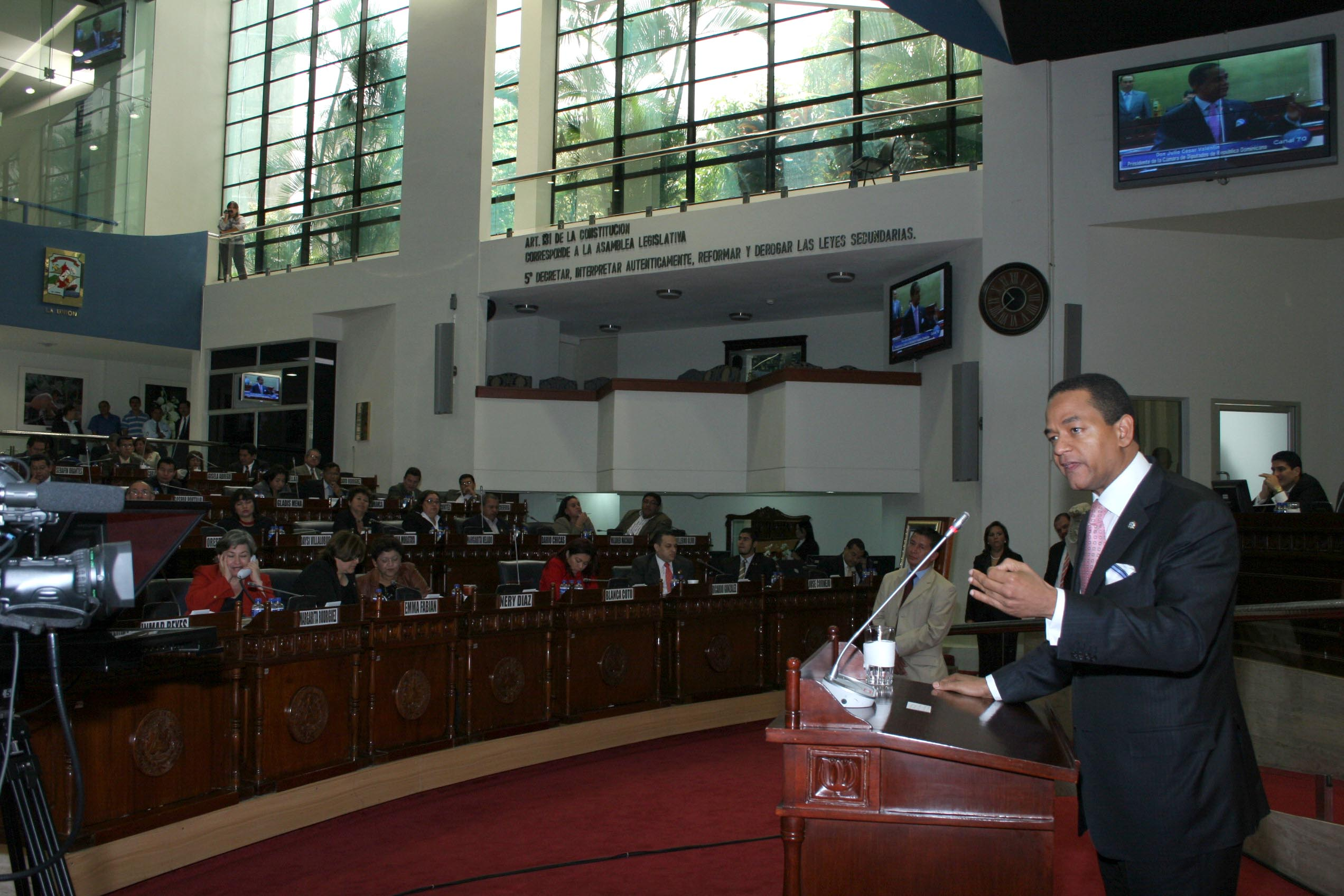 Julio César Valentín